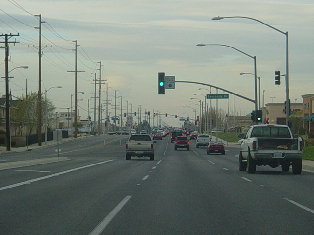 This is a photograph taken by me in Central Palmdale, California in the spring of 2005 looking north along 10th Street West, just south of Rancho Vista Blvd and north of Technology Drive.